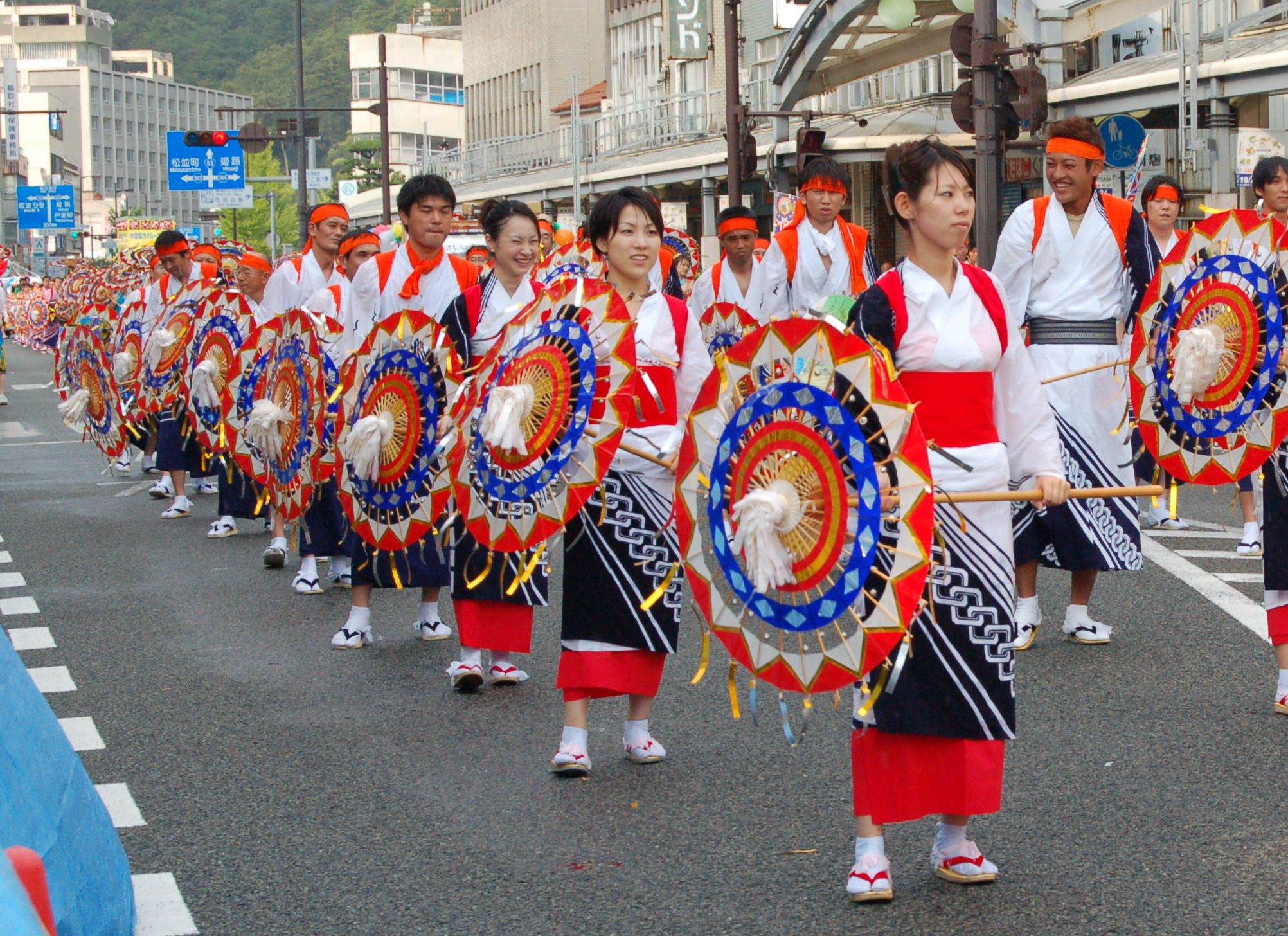 Kasa odori (shan-shan) or Parade of the Dance of the Umbrellas with small bells, in Tottori City (Japan). Photo by J. Cardona